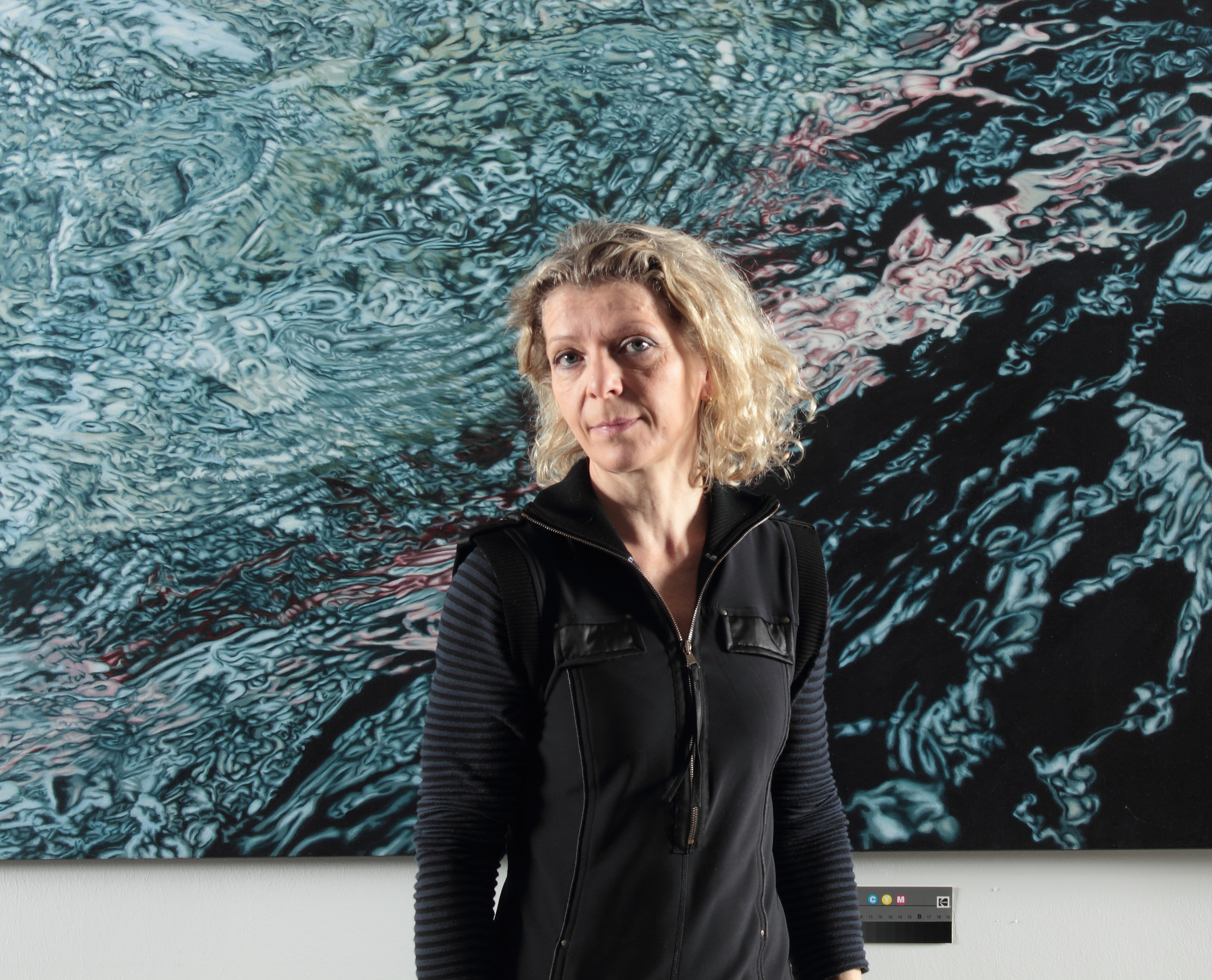 visual artist Franziska Rutishauser in her studio